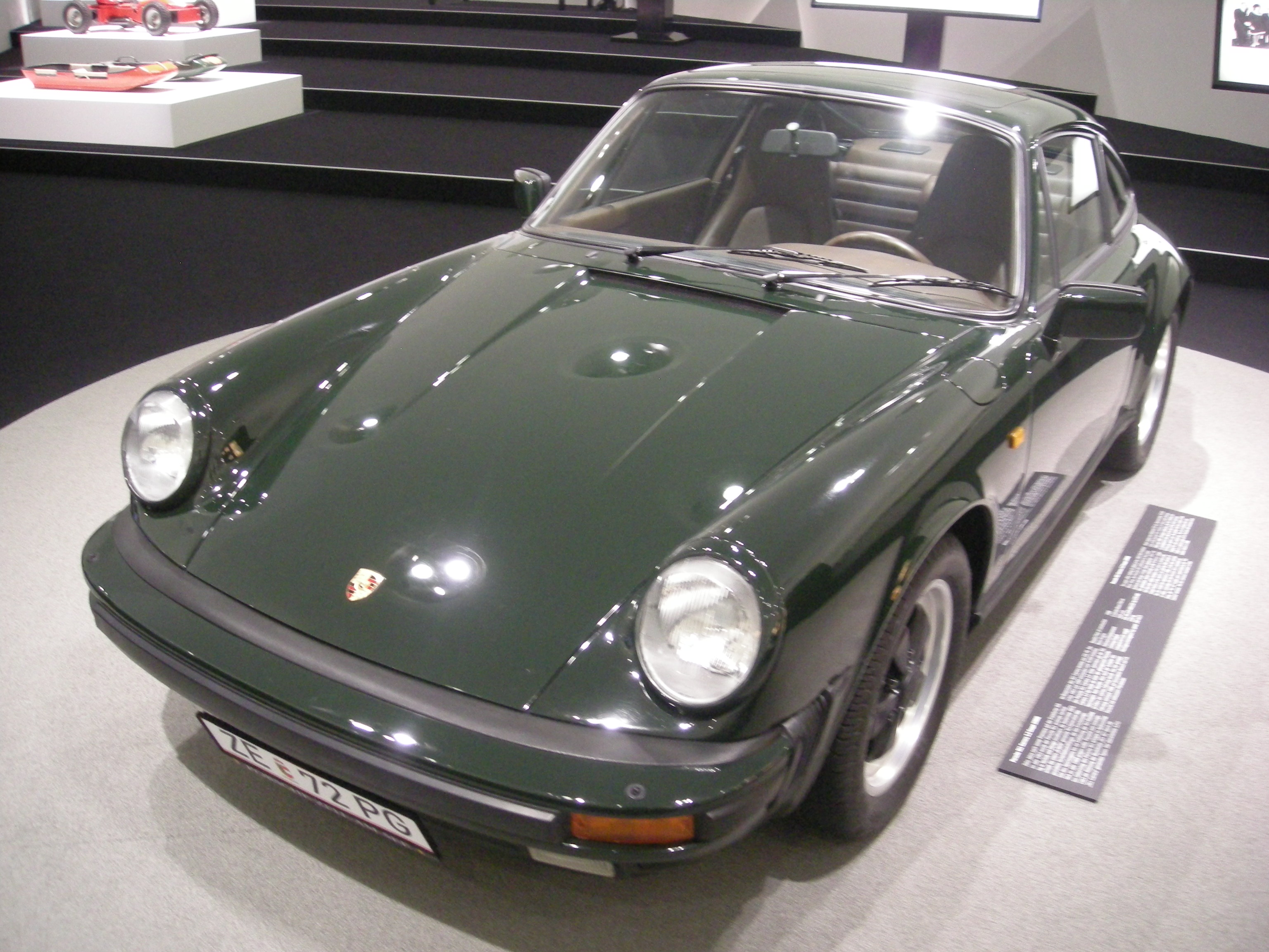 A 1988 Porsche 911 Carrera 3.2 Coupe inside the Porsche Museum in Stuttgart, Baden-Württemberg (Germany).